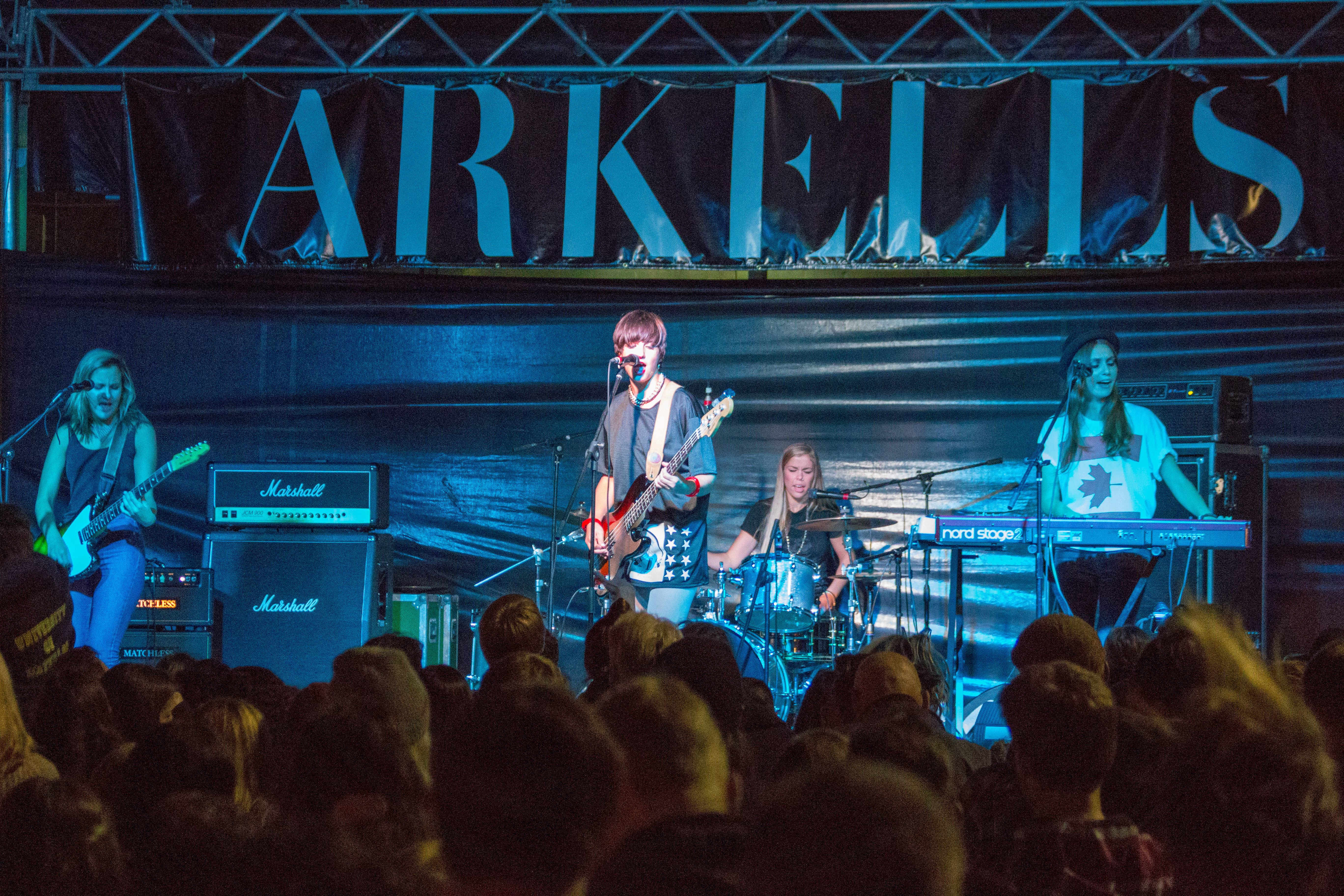 The Beaches performing at Supercrawl in downtown Hamilton, ON. From left: Kylie Miller, Jordan Miller, Eliza Enman-McDaniel and Leandra Earl